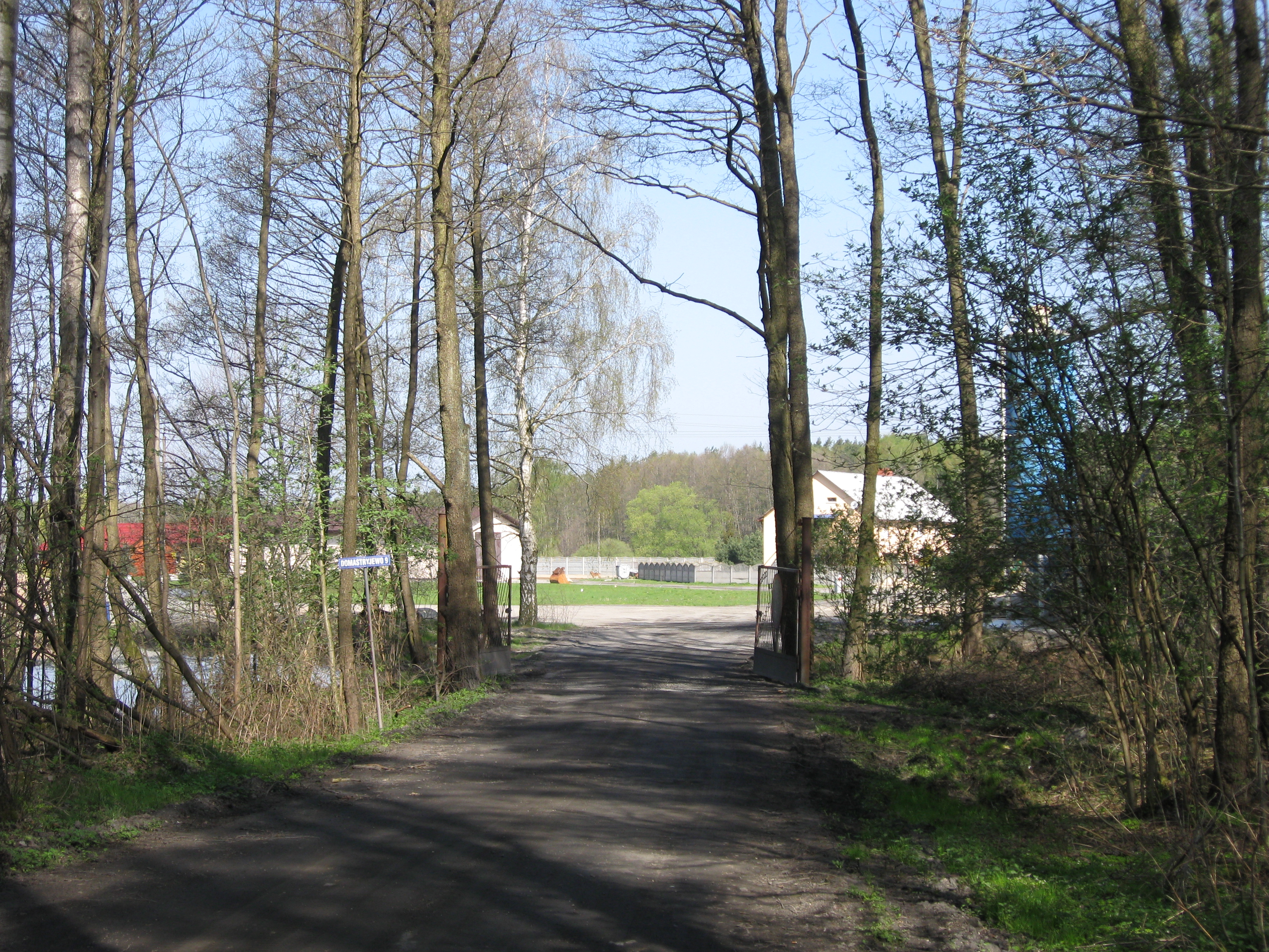 Photo village: Domastryjewo